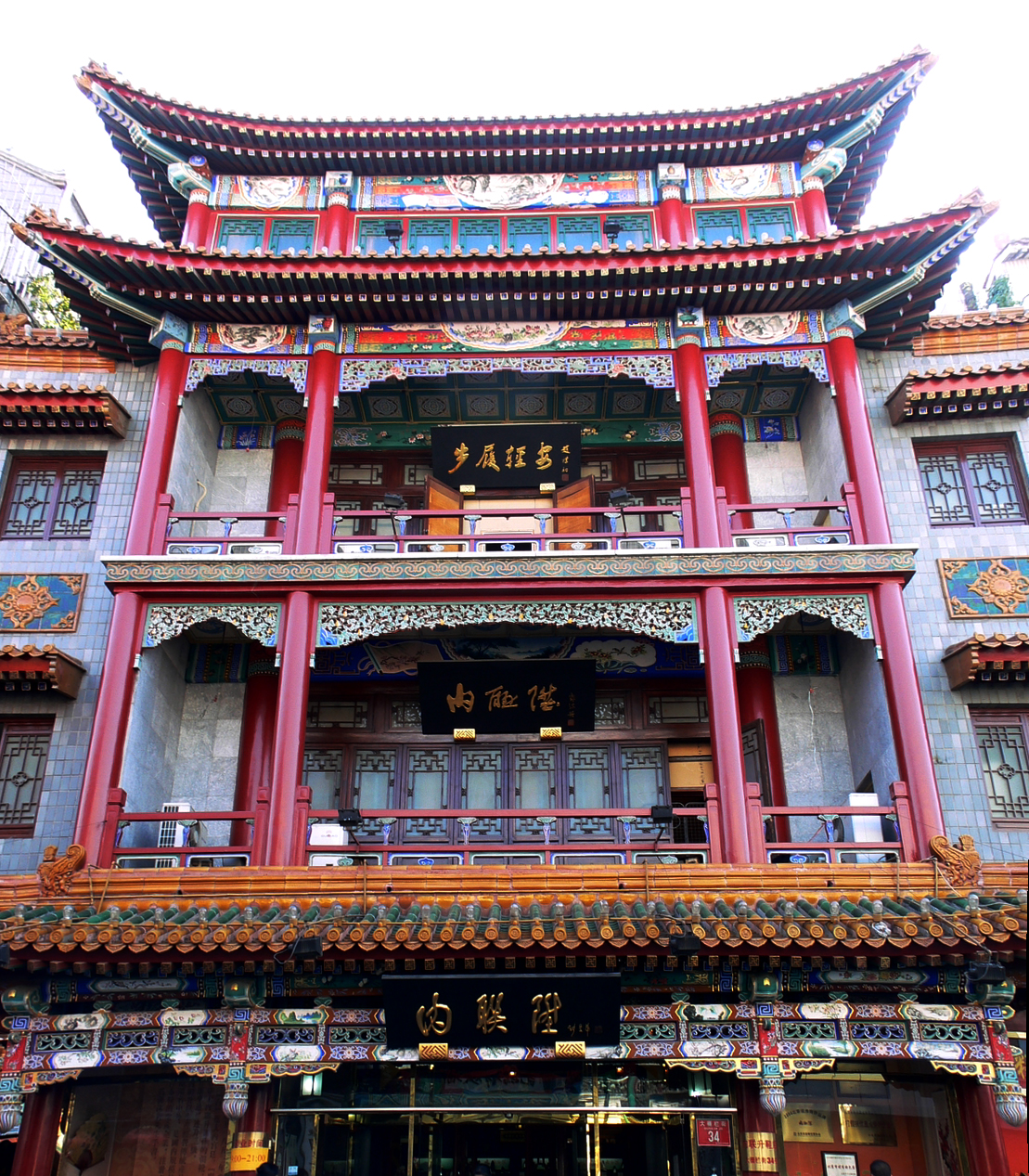 Neiliansheng Footwear Store at Qian Men Street, Beijing